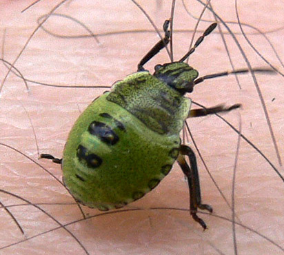 Hair on skin help us to extend the sensitivity of our skin, for instance here to the presence of a very small insect (larva of a bug, non-dangerous for mammals, because vegetarian).